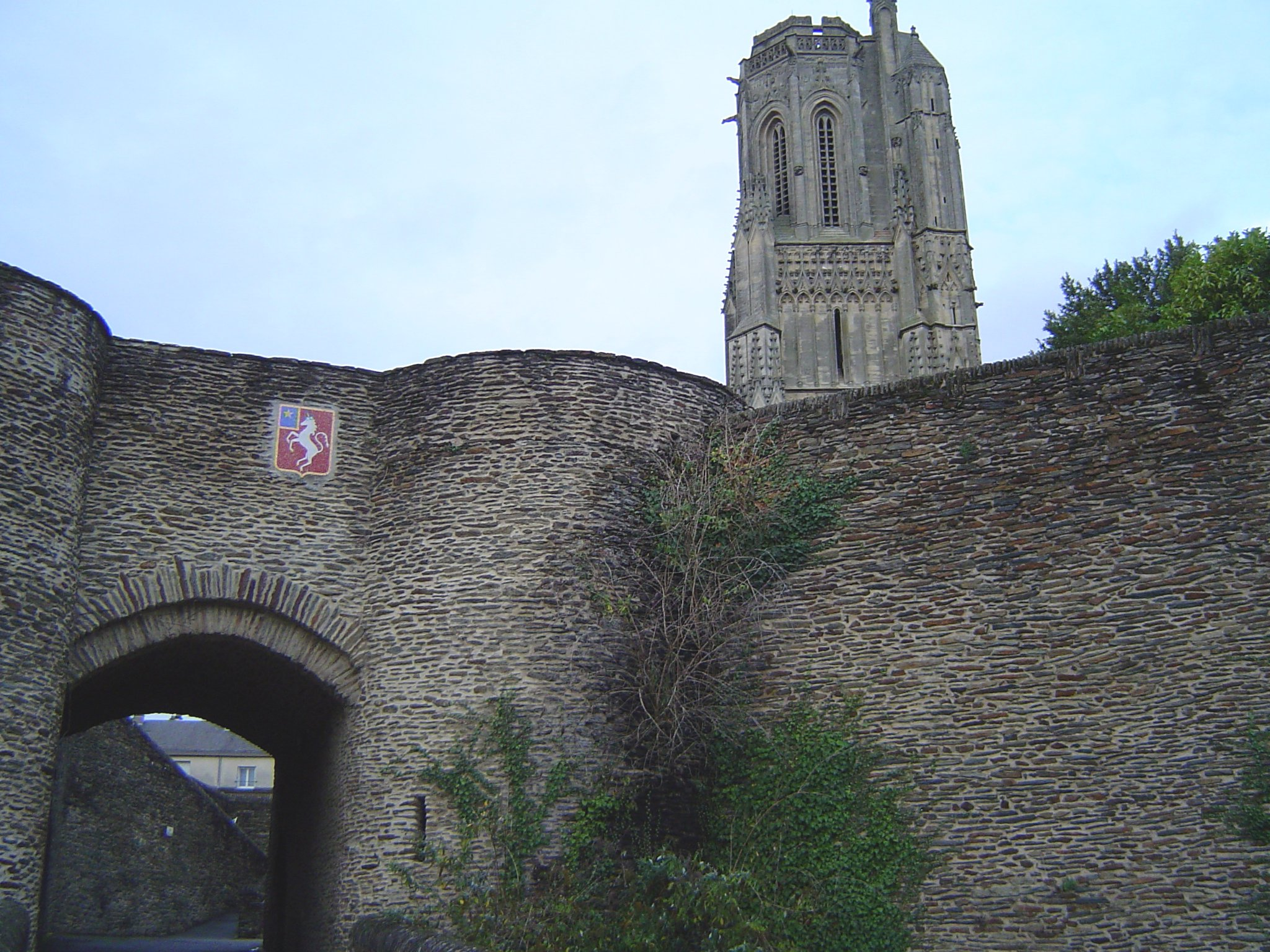 pretty image of Saint Lô (coat+Notre Dame church)